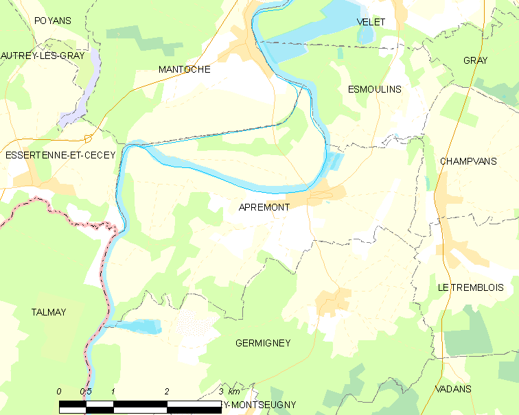 Map of French municipality